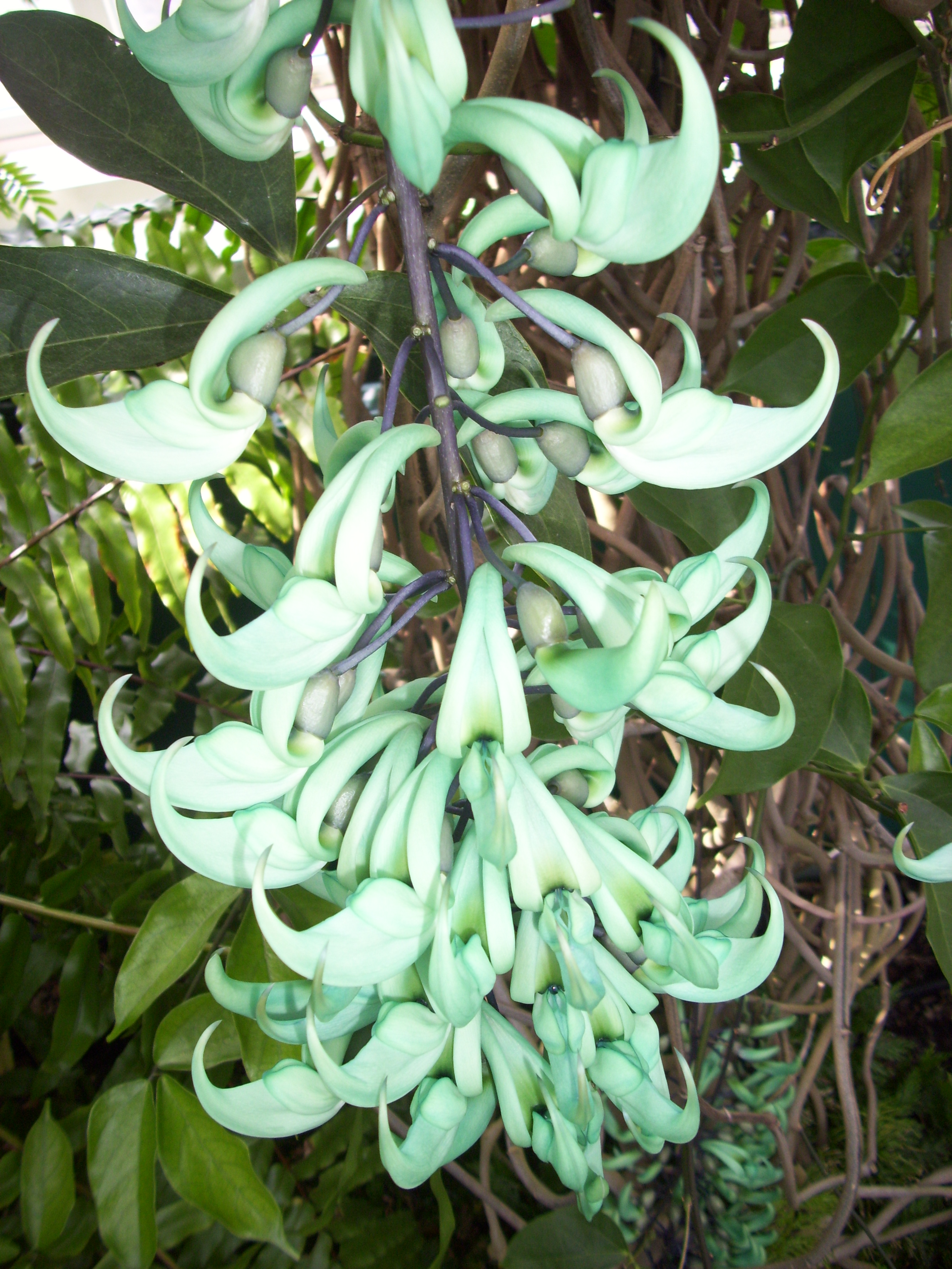 Jade vine at the The Enid A. Haupt Conservatory at the New York Botanical Garden on April 3, 2010.